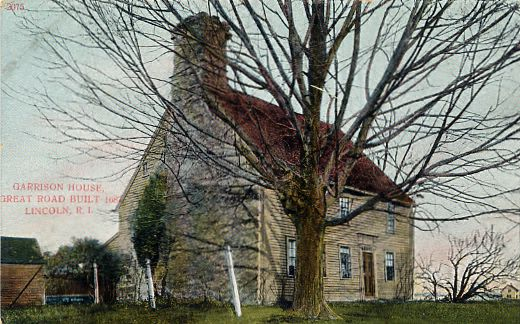 This was published in 1909 as a postcard and the copyright has expired. The image features the Arnold House in Lincoln, Rhode Island. The scanned image is released by me.